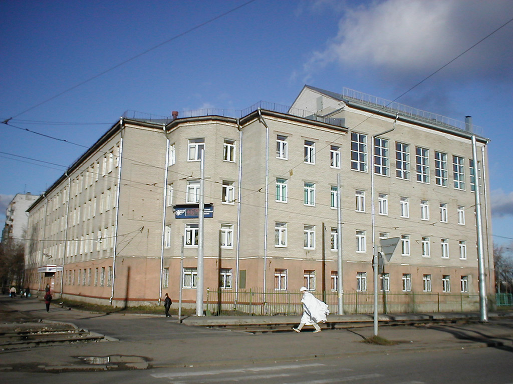 Kazan aviation-technical college on Kopylov street and square in Sotsgorod locality in Kazan